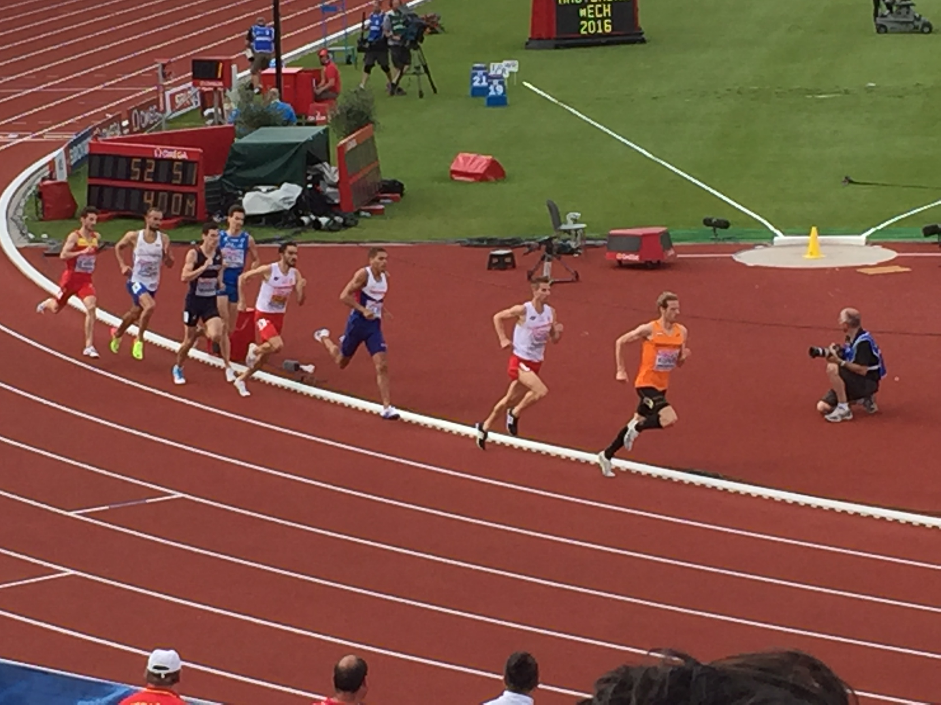 European Athletic Championships 2016 in Amsterdam - 10 July 2016 European Championships in Athletics (10 August) Schedule for this day: Finals: 17:00 High Jump M 17:05 400m Hurdles W 17:10 Hammer Throw M 17:15 3000m Steeplechase W 17:25 Triple Jump W 17:30 Shot Put M 17:35 4 x 100m W 17:45 1500m W 17:55 4 x 100m M 18:10 5000m M 18:30 800m M 18:40 4 x 400m W 18:50 4 x 400m M